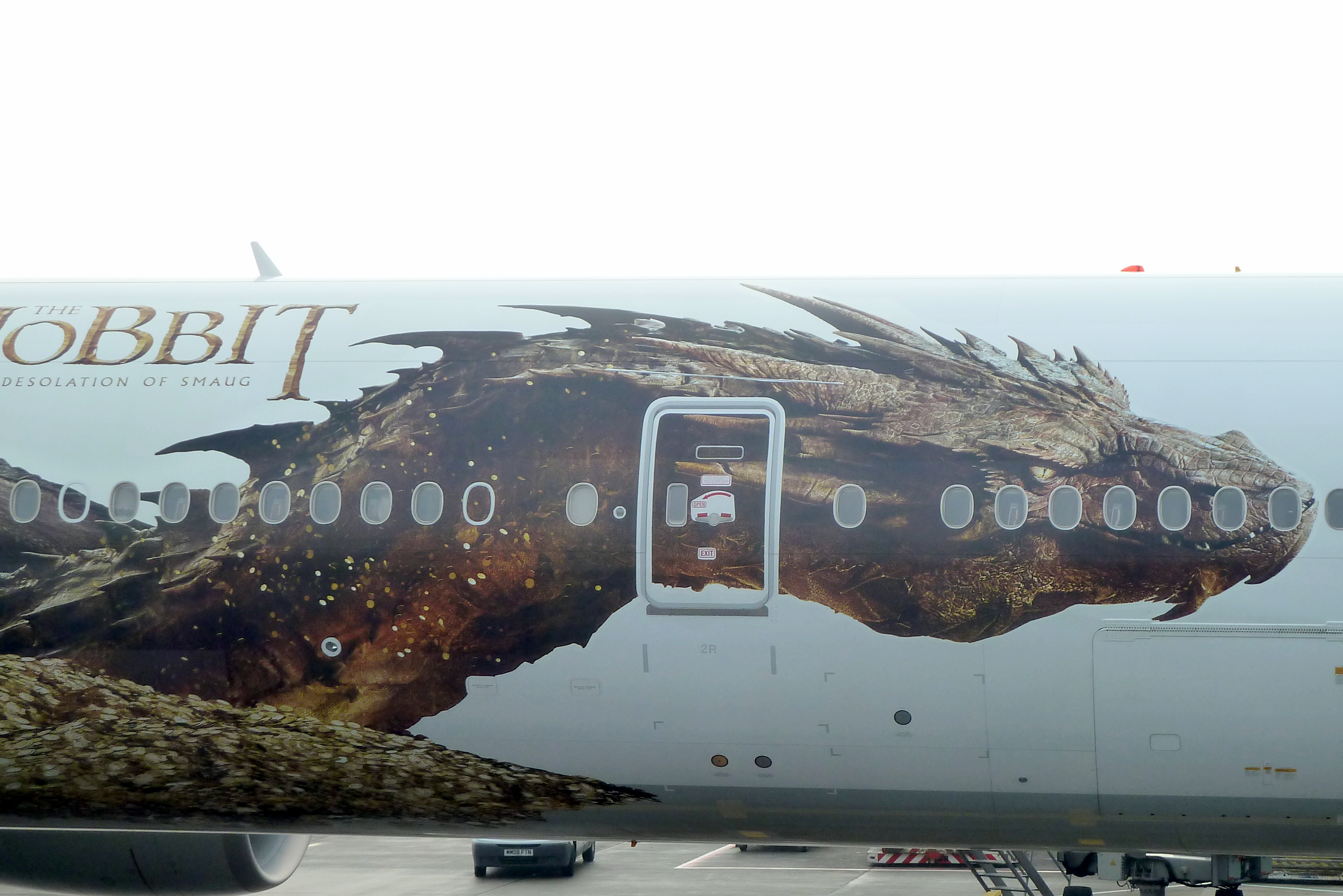 A close up of "SMAUG"...........